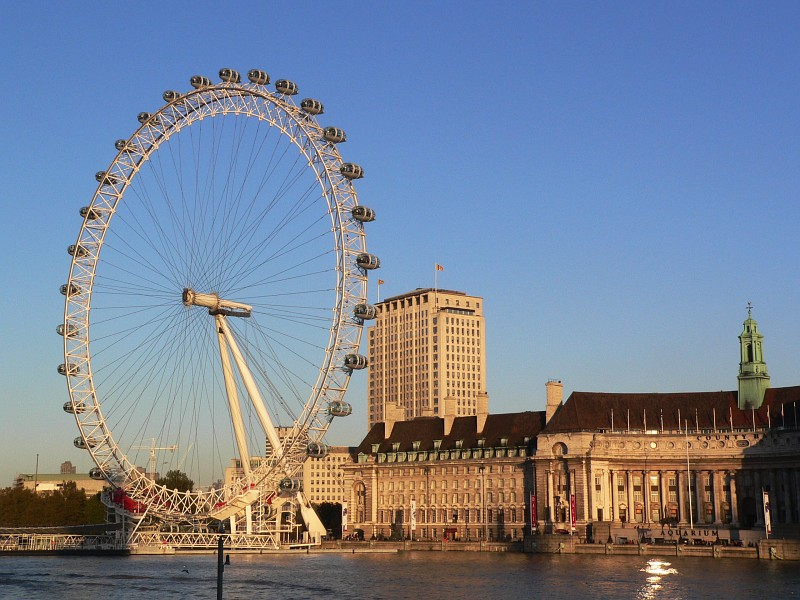 The London Eye and County Hall on the banks of the Thames, London.